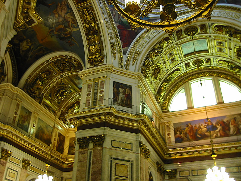 This is a photograph of the richly decorated interior of St. Isaac's Cathedral, located in St. Petersburg, Russian Federation. I took this picture with a digital camera on July 30, 2004.